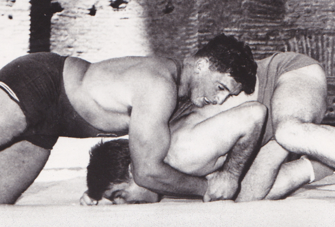 Dale Lewis (top) vs Adelmo Bulgarelli, 1960 Olympics